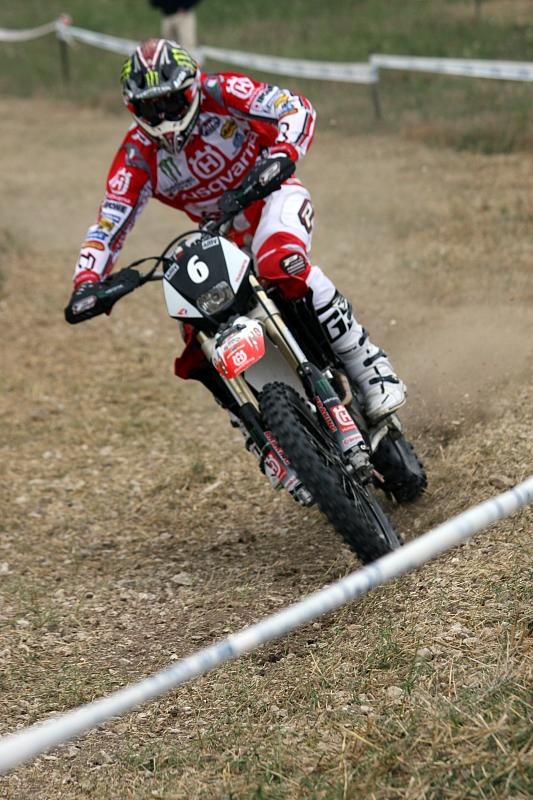 Bartosz Obłucki riding his Husqvarna E1 bike at the 2008 World Enduro Championship Grand Prix of Italy in Piediluco.